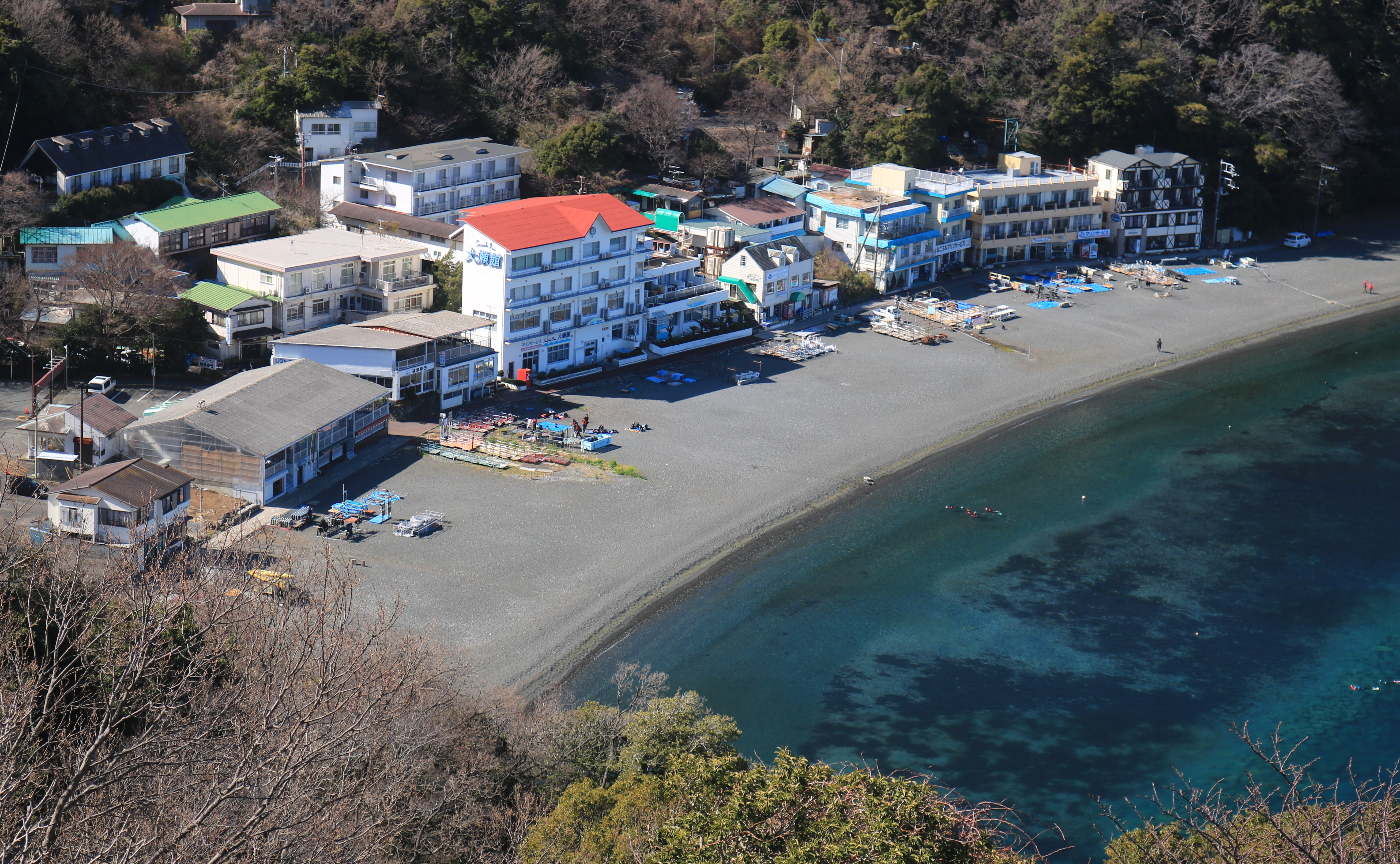 Diving Spot in Cape Ose, Numazu, Shizuoka Prefecture, Japan.